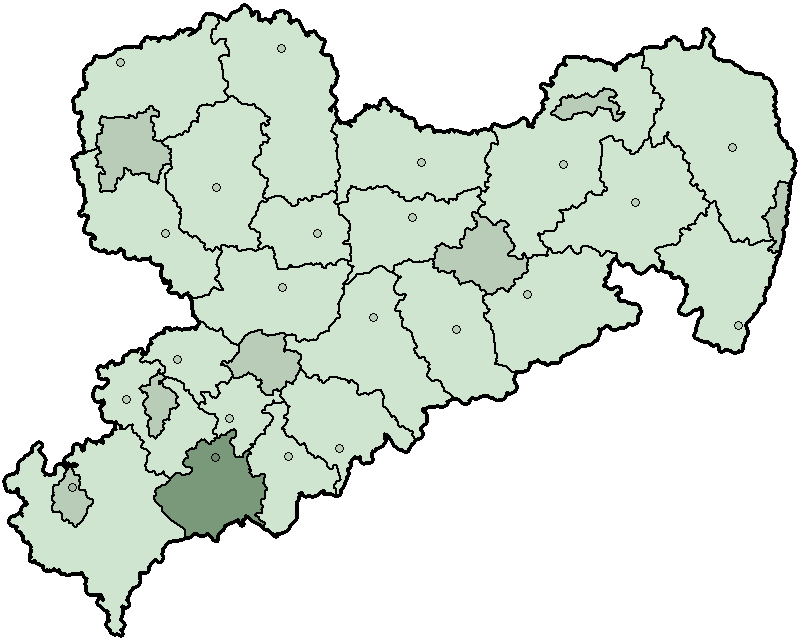 Map of the state Saxony in Germany before 2008, district Aue-Schwarzenberg highlighted.